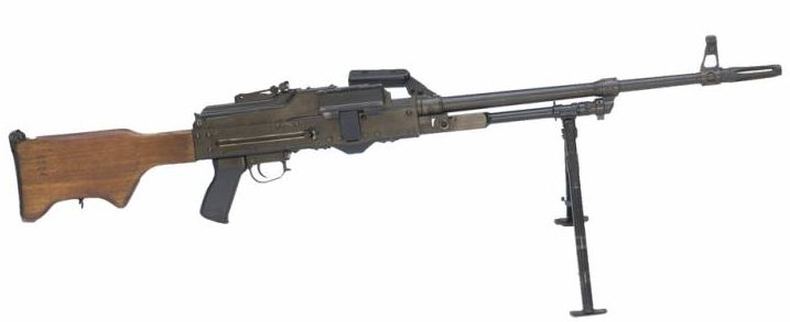 Zastava M84 gpmg with bipod unfolded.